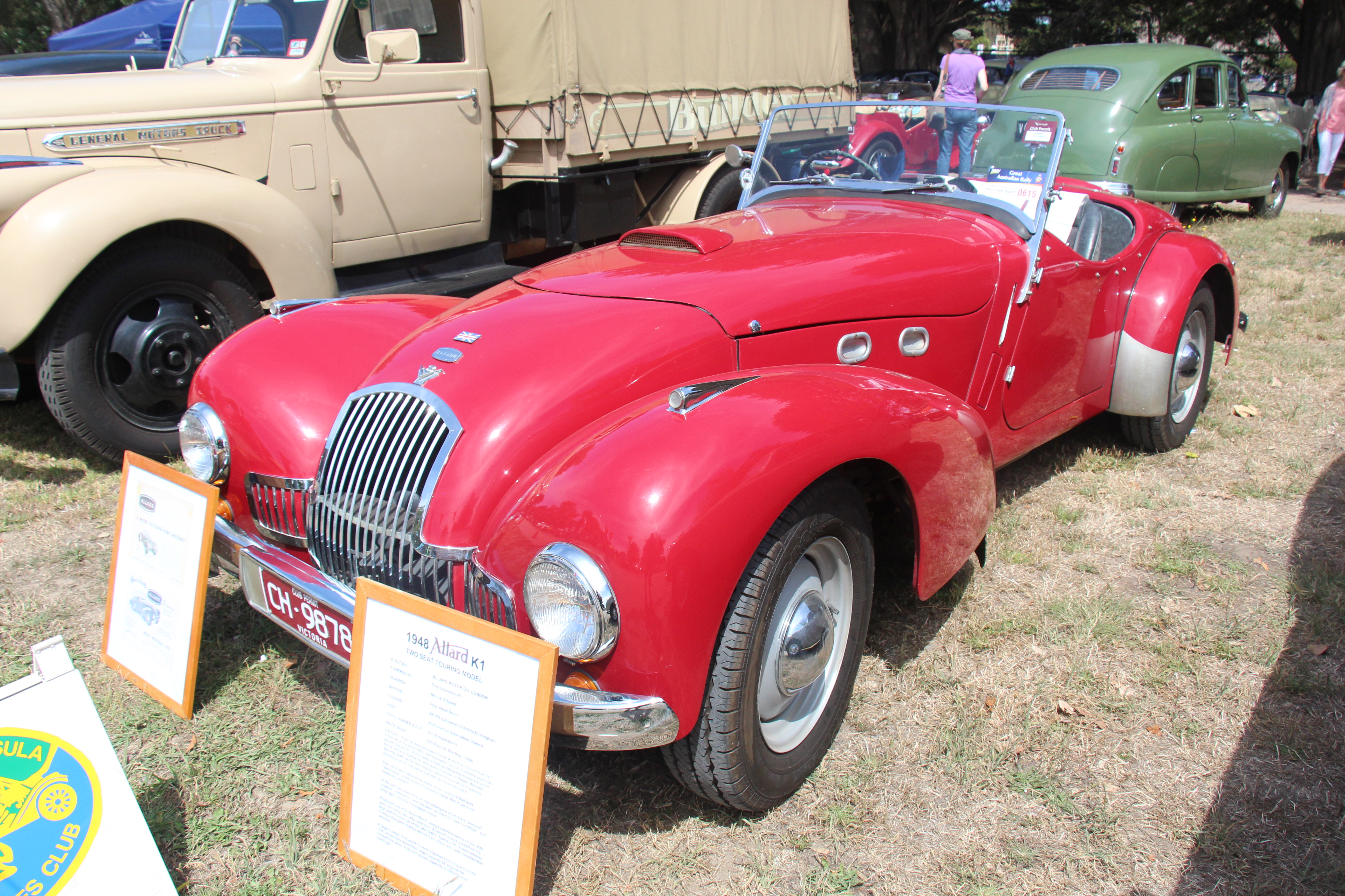 The Allard Motor Company Limited was a London based low volume car manufacturer founded in 1945 by Sydney Allard. Allards featured large American V8 engines in a light British chassis and body. Cobra designer Carroll Shelby and Chevrolet Corvette chief engineer Zora Arkus-Duntov both drove Allards in the early 1950s, obviously getting their inspiration from the Allard. The first pre war Allard cars were built specifically to compete in Trials events, powered mainly by Fords flathead V8 After the war 3 models were introduced; the J, a competition sports car; the K, a slightly larger car intended for road use, and the four seater L, later the drophead coupe M and P The K1 used mechanicals from the Ford Pilot, including the Ford sidevalve V8, 151 were built, this is one of 5 that ended up in Australia. Some were exported to the USA where Chrysler and Cadillac V8s were fitted.